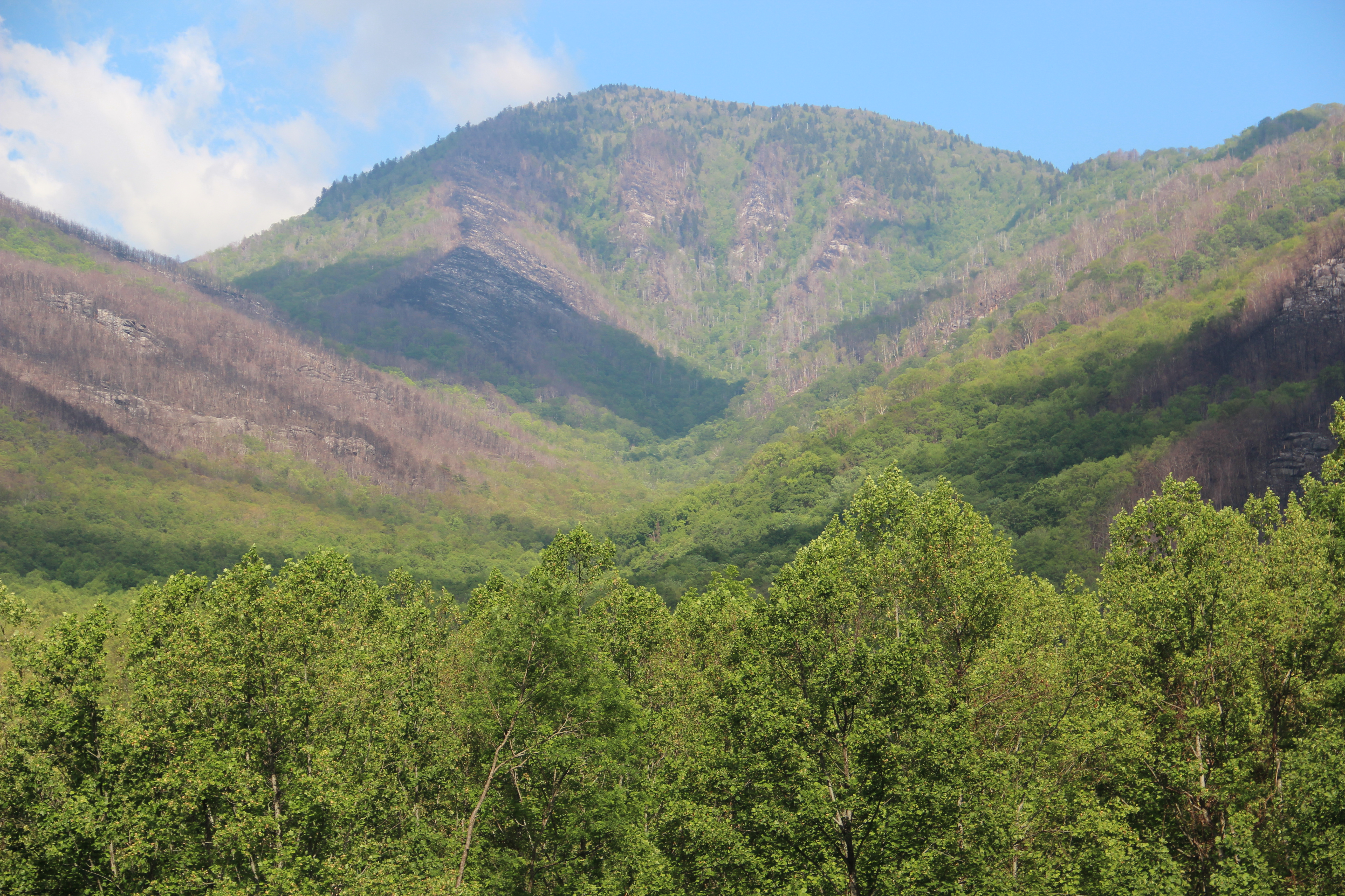 Mount LeConte viewed from Carlos Campbell Overlook. Burned trees from the 2016 Great Smoky Mountain fires are visible.